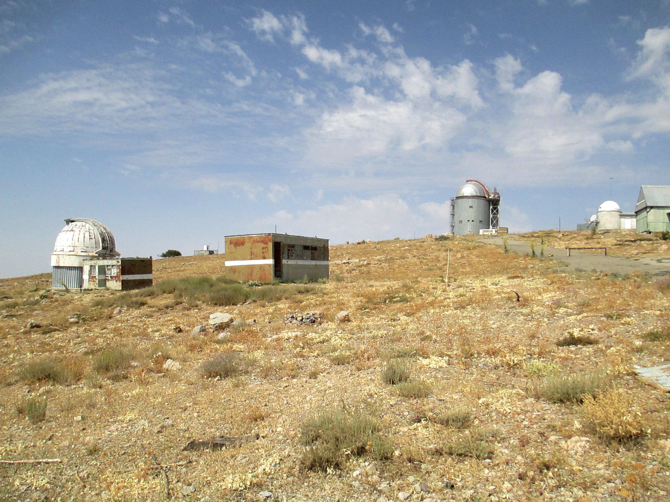 Telescope domes. Maydanak, Uzbekistan